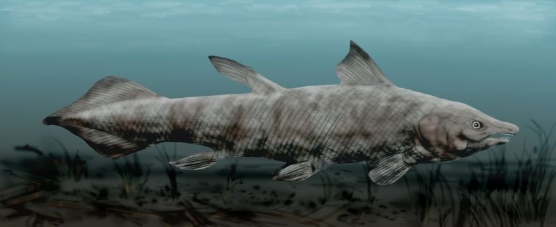 Chinlea sorenseni, a freshwater crossopterygian from the Late Triassic of North America